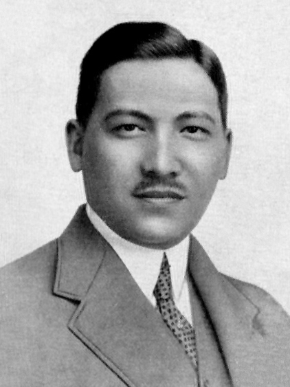 Portrait of Francisco Alonso Liongson